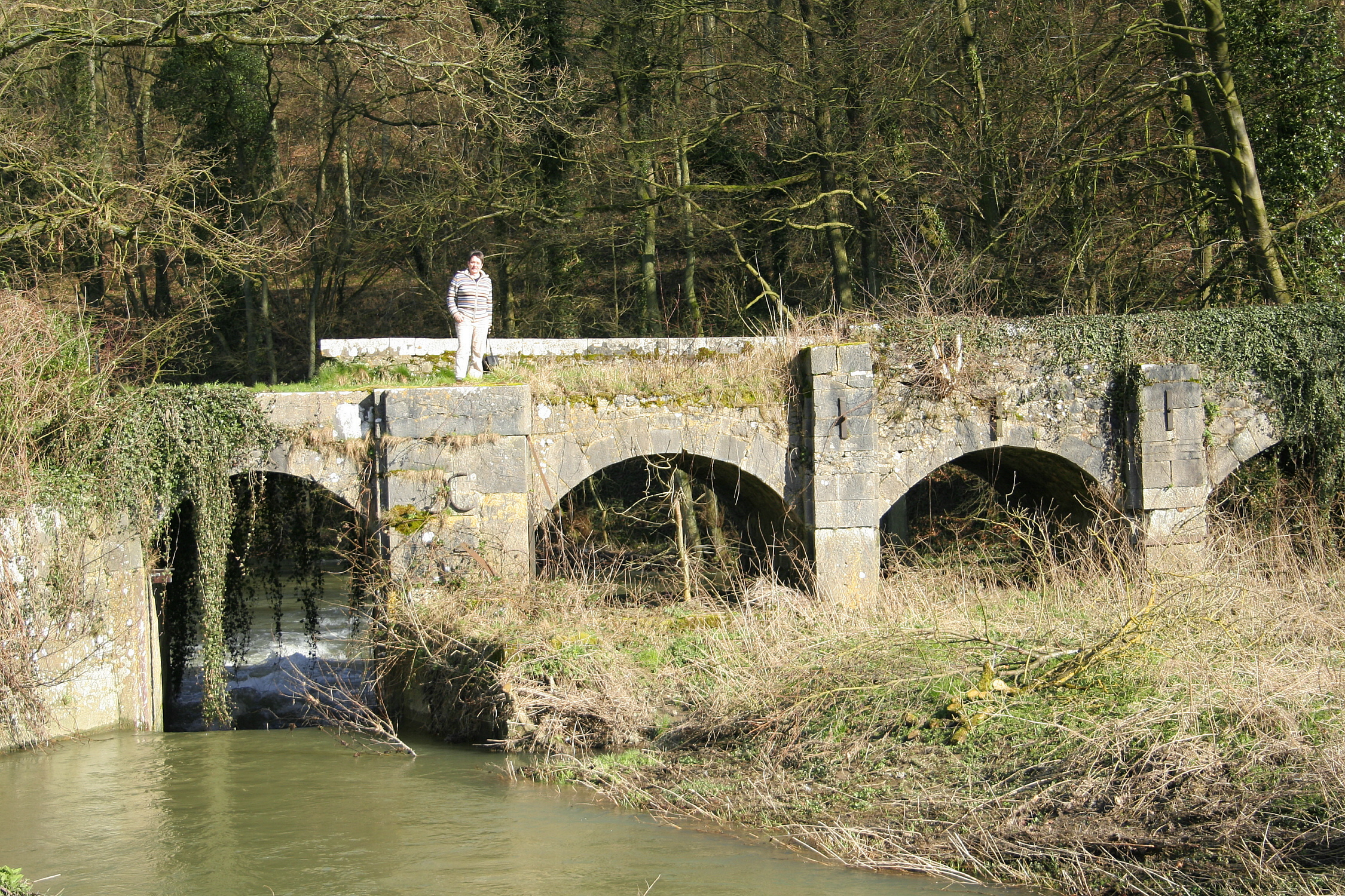 Solre-Saint-Géry, Belgium, the old bridge on the Hantes river.